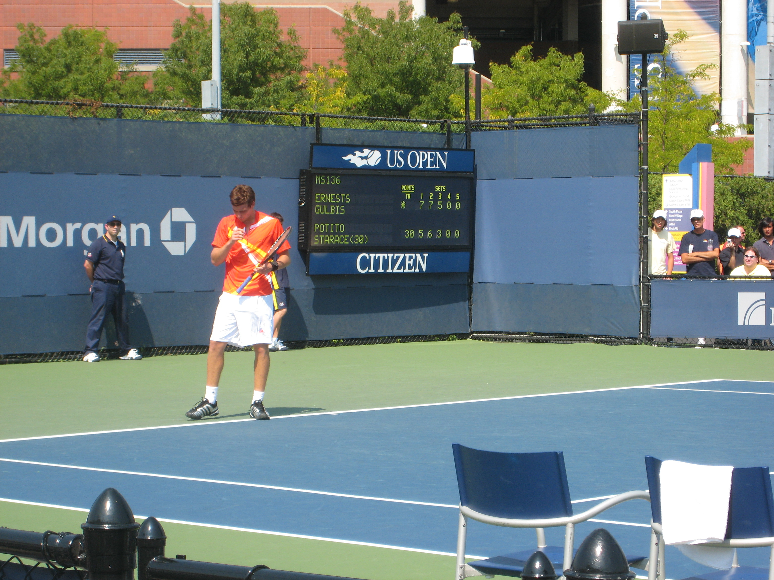 Ernests Gulbis in his upset match at the 2007 U.S. Open over Potito Starace[1]